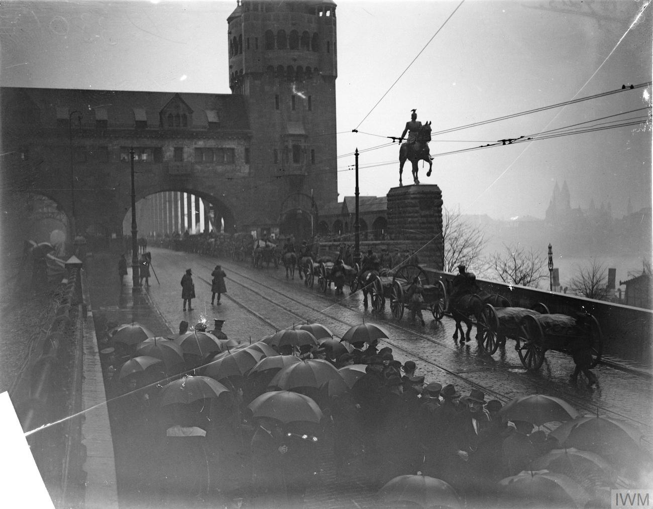 The British Army of the Rhine, 1919-1929 General Herbert Plumer, General Officer Commanding-in-Chief the British Army of the Rhine, taking the salute from the 29th Division entering Cologne by the Hohenzollern Bridge. The column took 4 hours to pass. General Plumer moved to another bridge later, his place being taken by General Claude Jacob. Friday, 13th December, 1918.